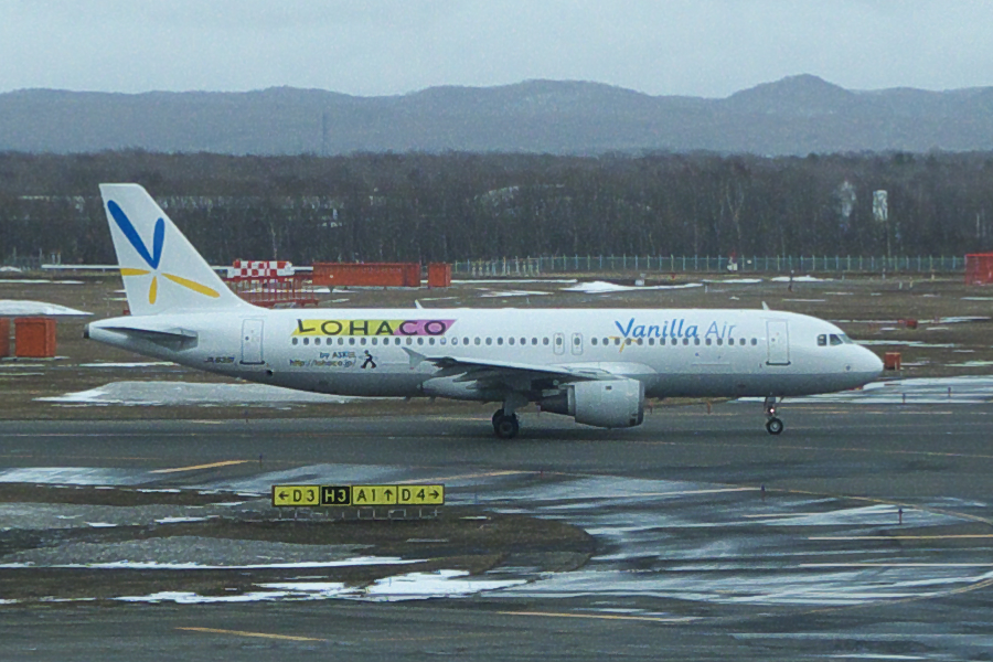 Airbus A320 for Vanilla Air JA8391 in LOHACO livery at New Chitose Airport